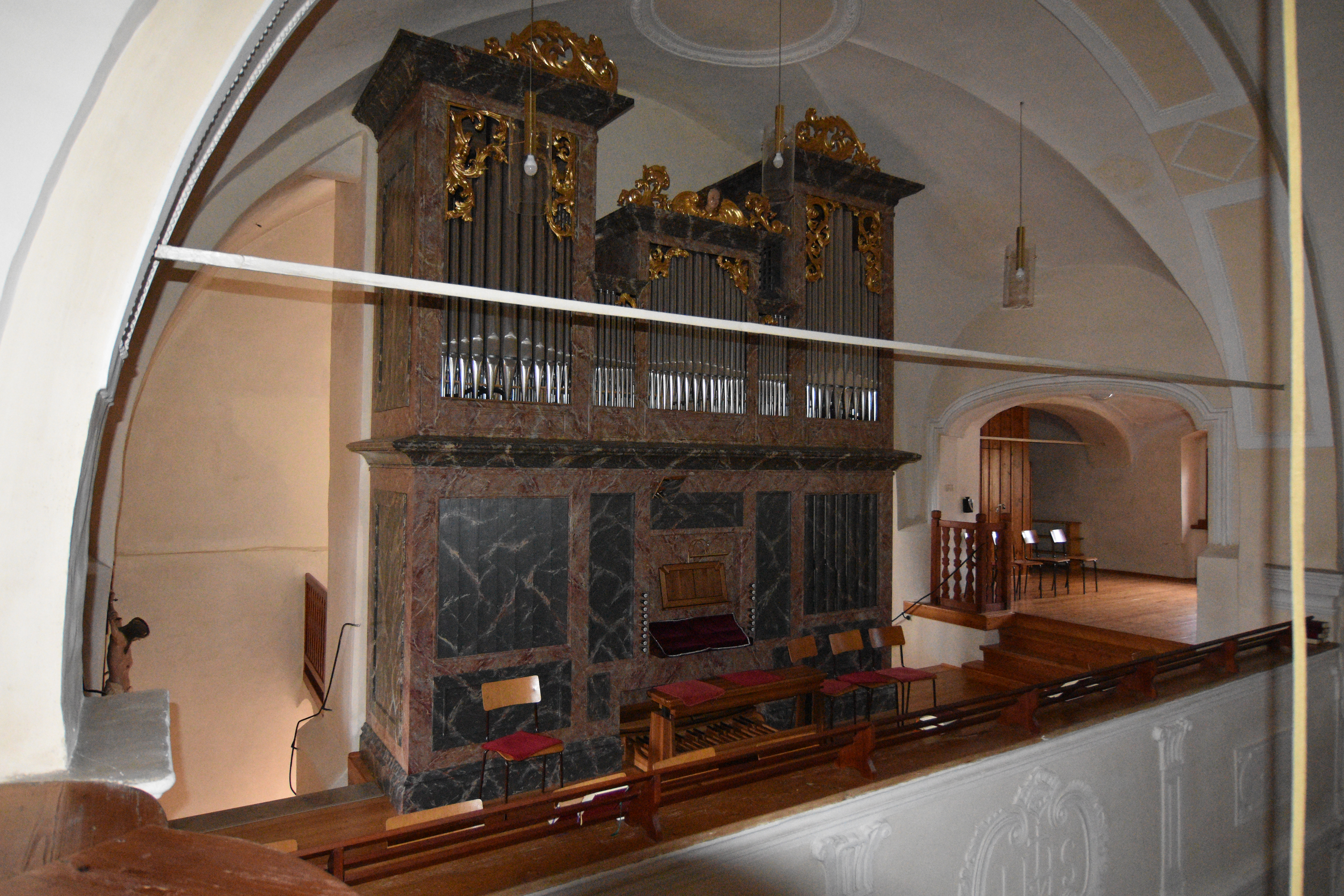 Church Großsteinbach